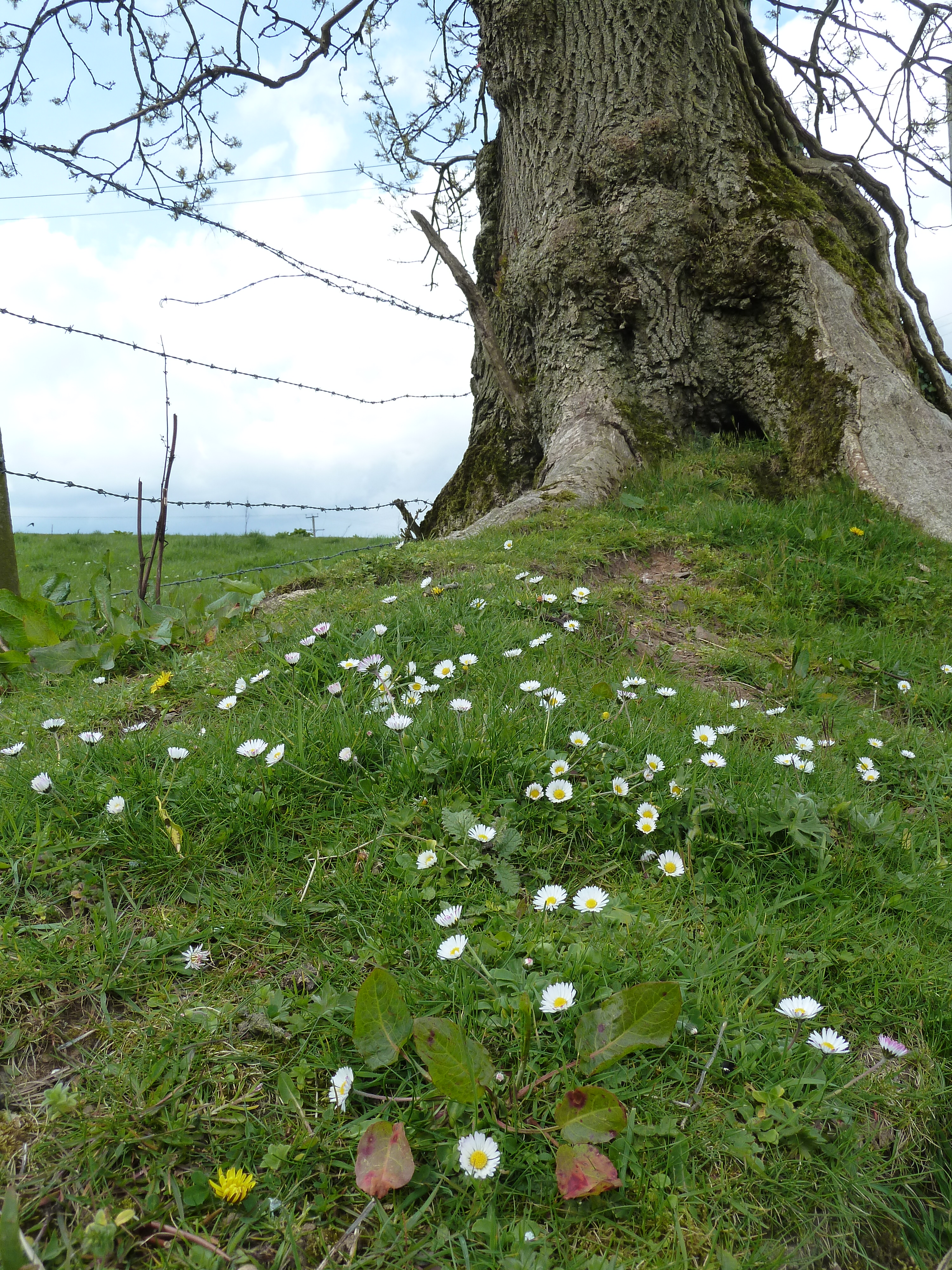 Knockbracken, Co. Antrim, Ireland end of April Bellis perennis